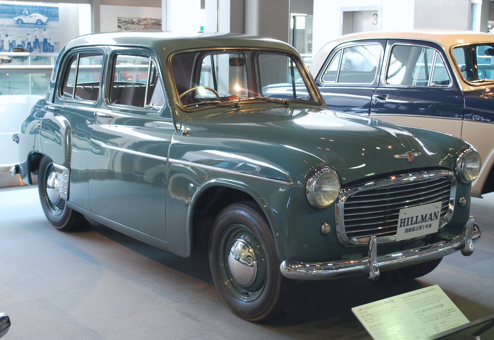 1st genetation Isuzu_Hillman-Minx Model PH10